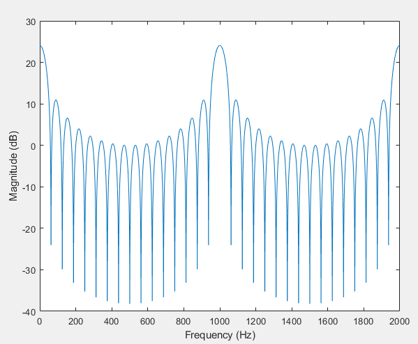 periodically repeated transmission function of a 16-sample group averaging filter working with an input data rate of 1kHz. The picture stops at the 4th repetition due to lack of space. Theoretically the repetition never stops.